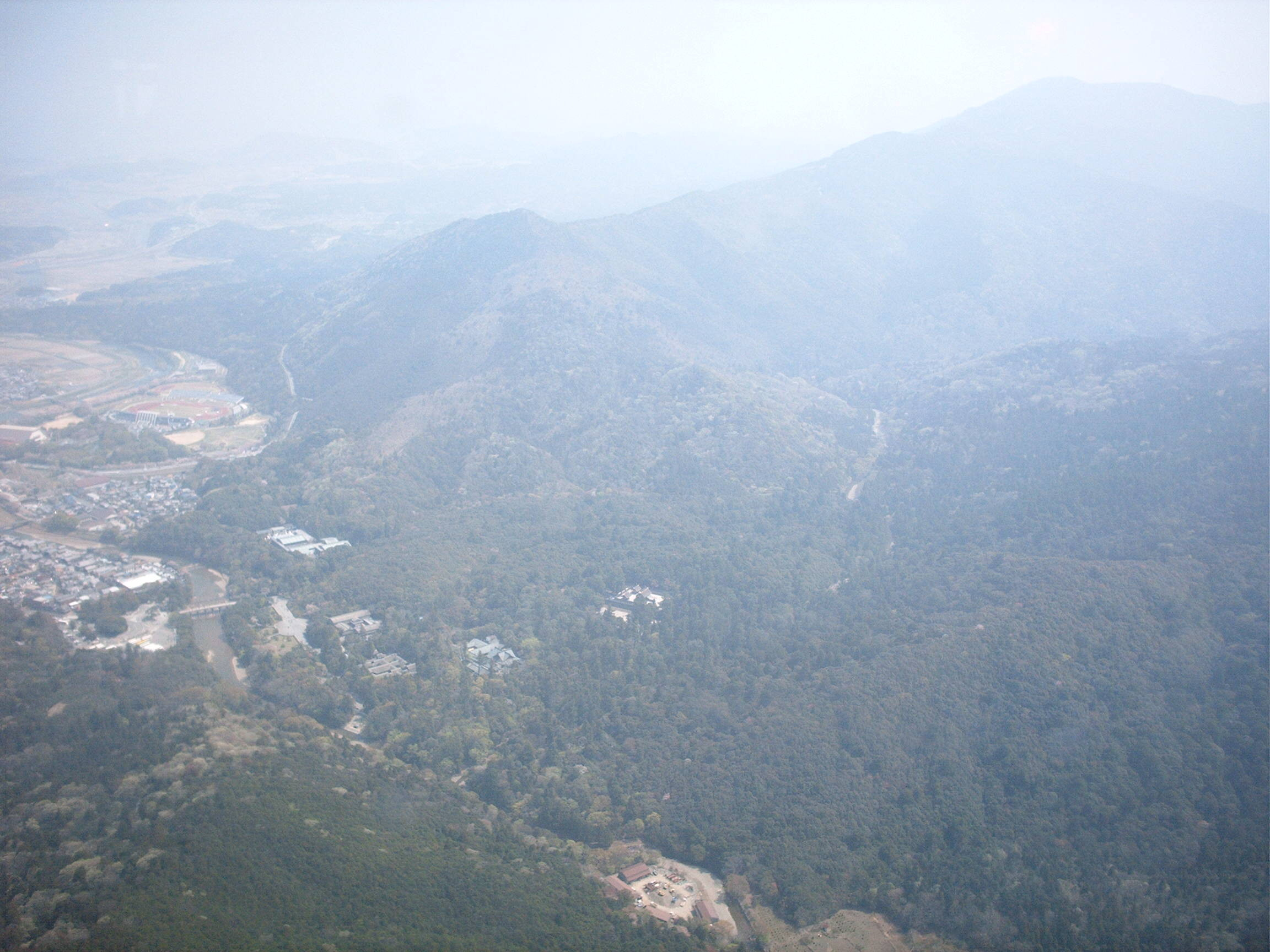 The Kotaijingu (Naiku) at Ise city Mie Prf. Japan.